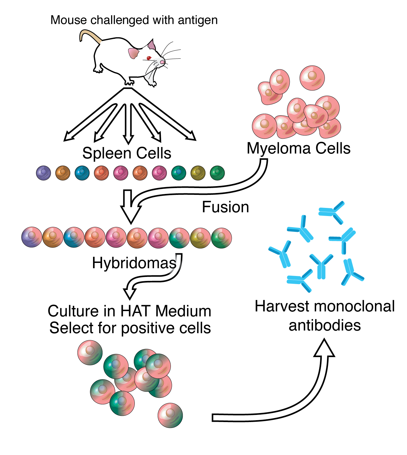 Overview of hybridoma technology and monoclonal antibody creation